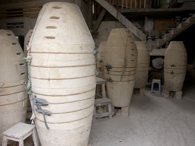 Piece molds for the bottom part of of big (2m high) vases